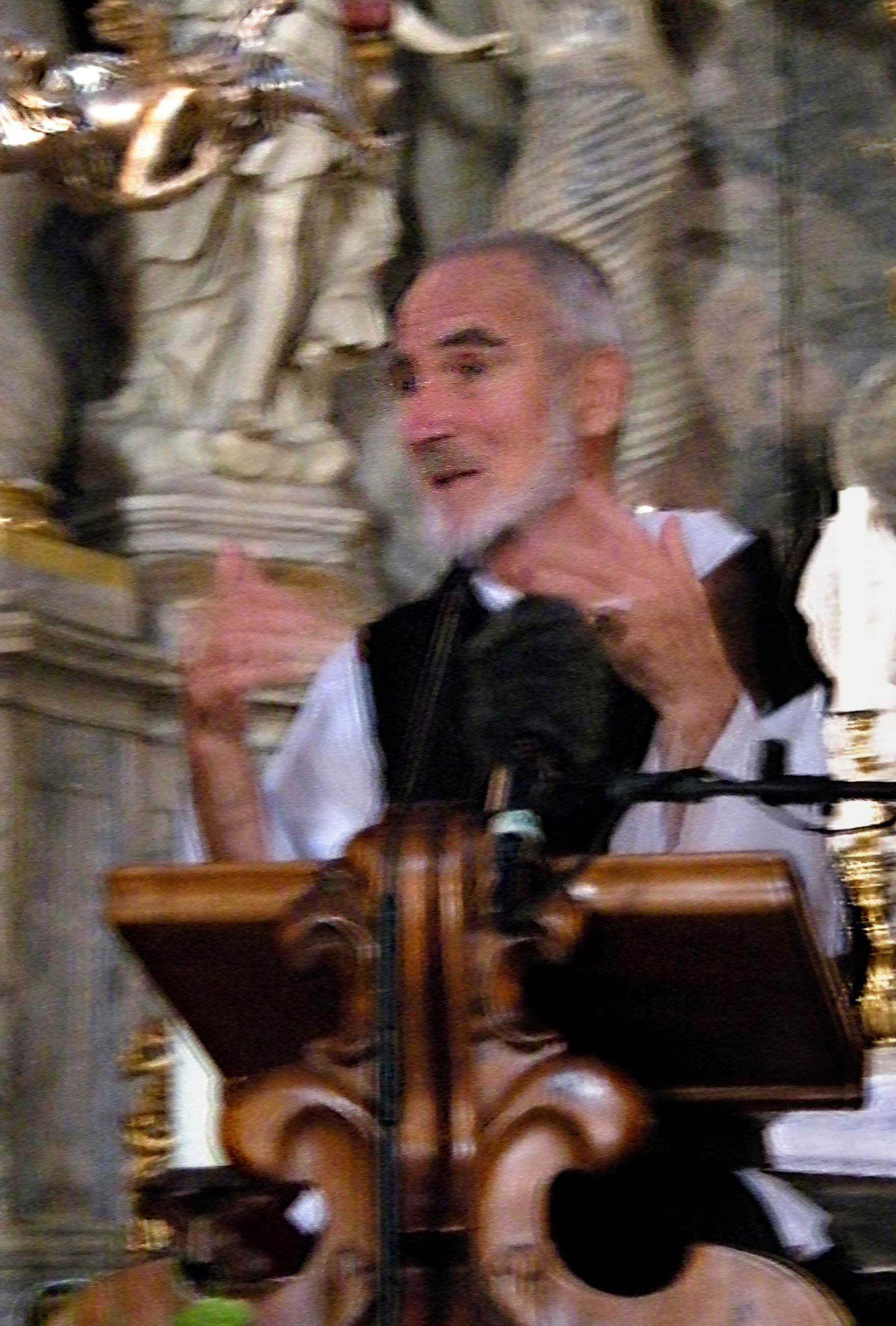 Brother David Steindl-Rast, Austrian-born benedictine monk from Mount Saviour Monastery, Elmira, NY, had to give his lecture in the Maria Trost basilica, Graz, Austria, as the originally projected auditory, nearby, would have been too small. Notes: EXIF time is set to UTC, which was local time-2. Unfortunately, the photographer was so overwhelmed by the talk that he forgot to adapt his camera setting to poor light conditions manually: 1/8 second at "portrait" focal length would give what he got.